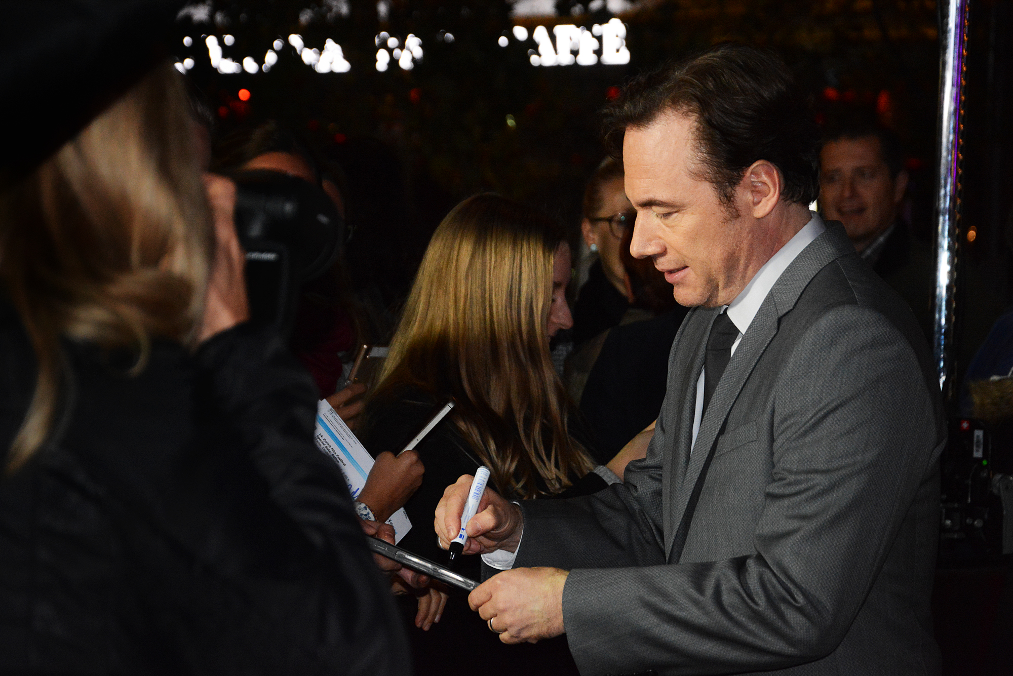 German actor, author and director Michael Bully Herbig attends the "Ballon" Special Gala Premiere during the 14th Zurich Film Festival on October 4, 2018 in Switzerland.